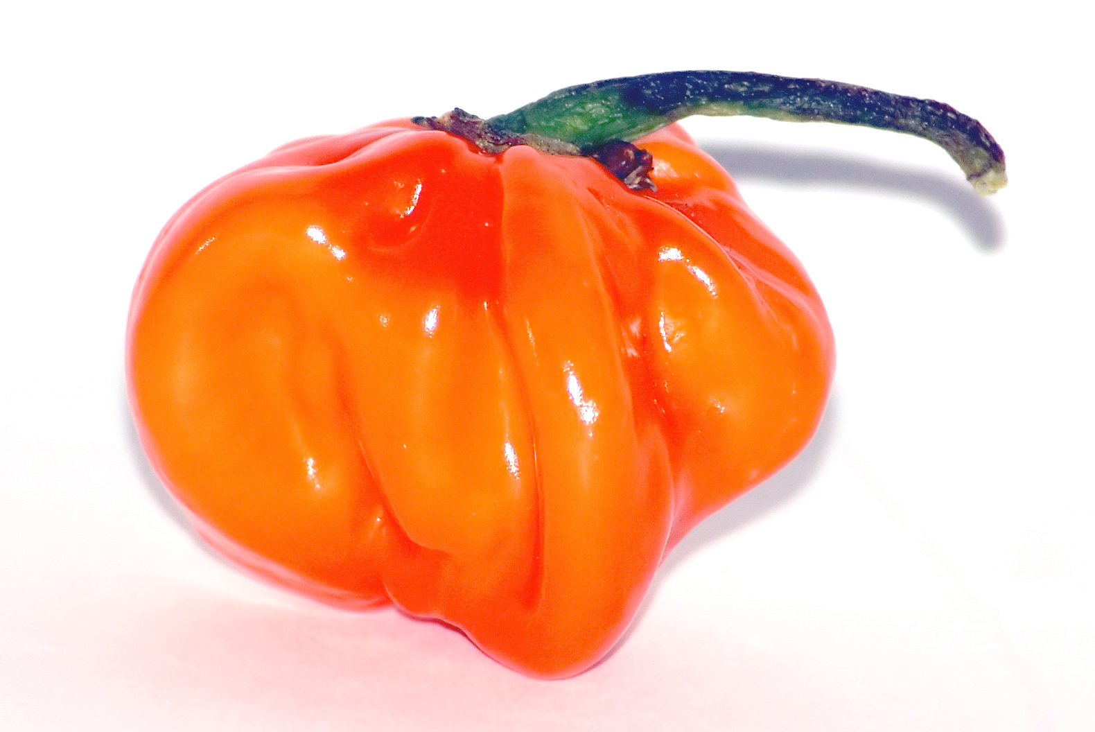 This image shows a Habanero chile, which is the most intensely spicy chile pepper of the Capsicum genus. Most habaneros rate 200,000–300,000 Scoville heat units (SHU), and the Red Savinas variety, at 580,000 SHU, holds the record for being the "World's Hottest Spice".